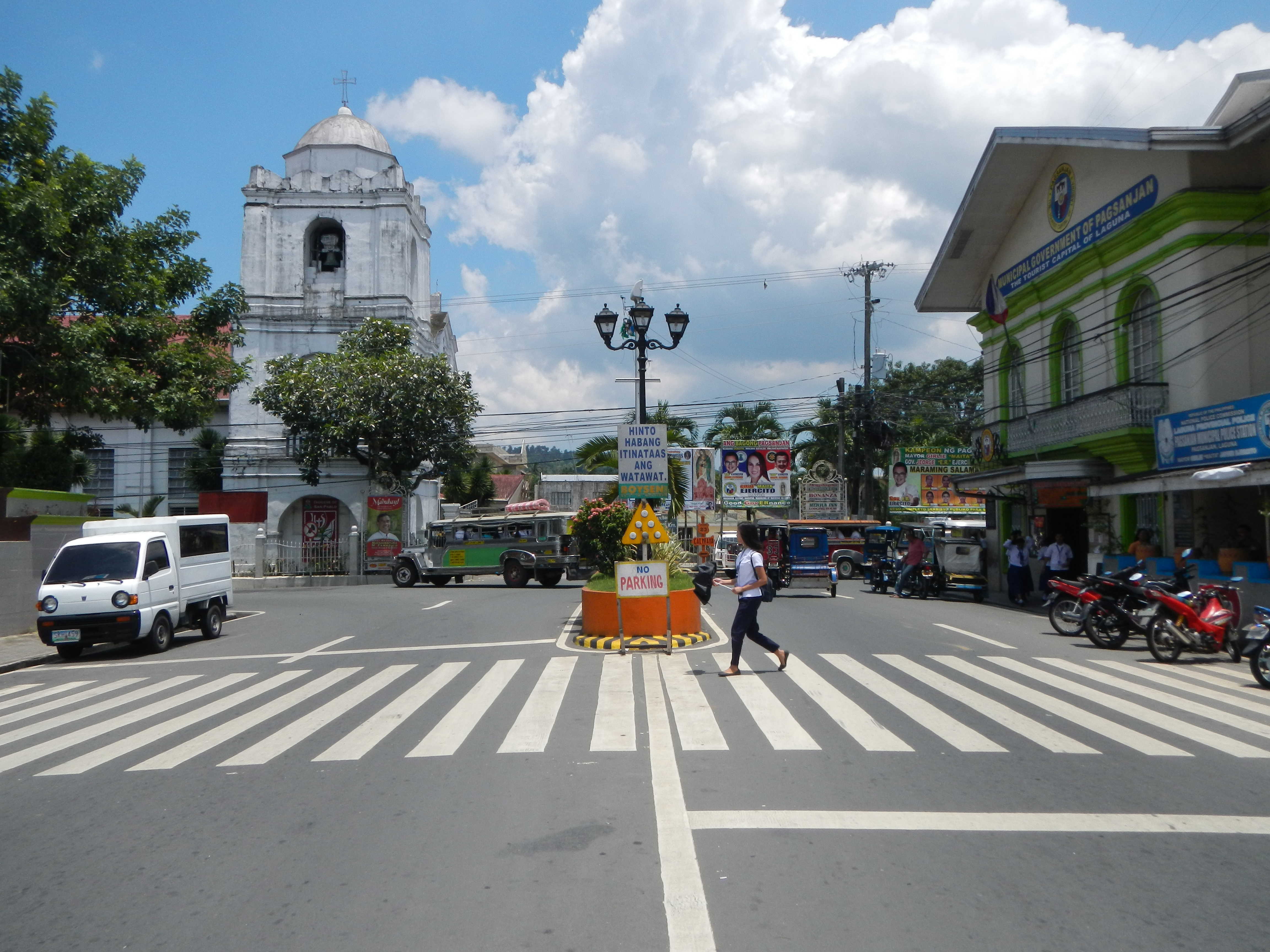 UploadWizard photos -- (General description, 3-dimension angle by angle photography of the landmarks) --- of - 1878-1880 Town Gate & Town popsd, Town Plaza, (the provincial capitol, a big colonial home located at Calle Real now Rizal Street presently owned by the heirs of the late Don) Manuel C. Soriano bust, Monument, Veterans Federation of the Philippines Monument, [1][2], & the -- Diocesan Shrine of Our Lady of Guadalupe Episcopal District IV[3] Roman Catholic Diocese of San Pablo [4] [5] 4008 Laguna, Feast day: December 12 Parish Priest: Father Noel C. Artillaga, VF Episcopal Vicar: Father Leandro L. Bariring, Jr. VICARIATE OF OUR LADY OF GUADALUPE Vicar Forane: Father Noel C. Artillaga Rev. Msgr. Mario Rafael M. Castillo Our Lady of Guadalupe Parish Diocesan Shrine of Our Lady of Guadalupe Poblacion, Pagsanjan.